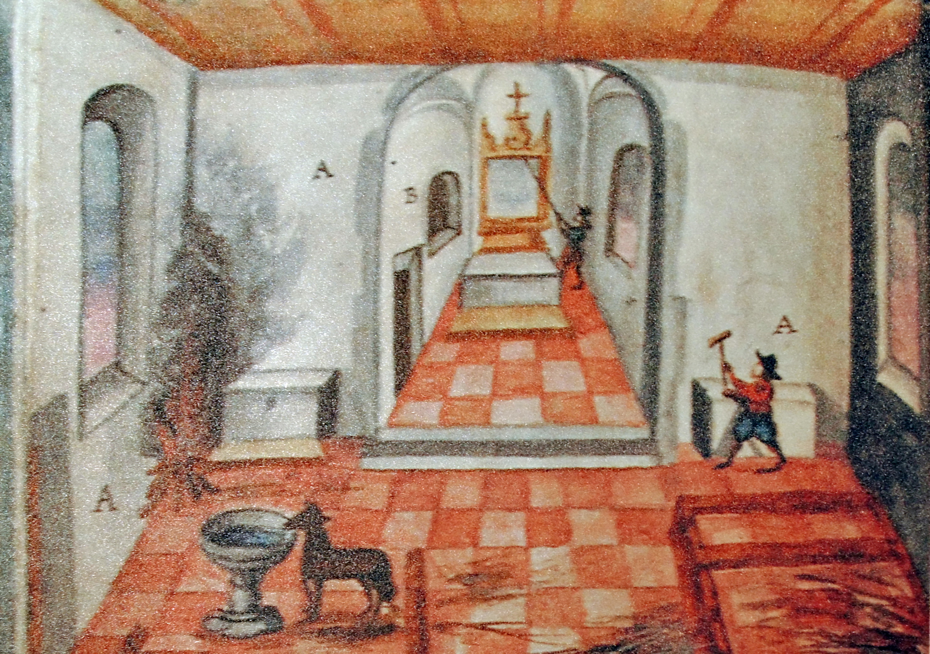 Collection of the Stadtmuseum) in Rapperswil (Switzerland)